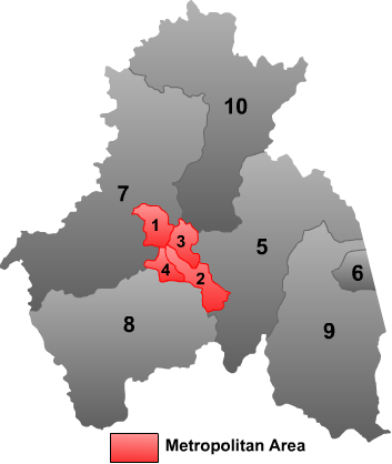 Map of Mudanjiang Prefecture — in Heilongjiang Province.